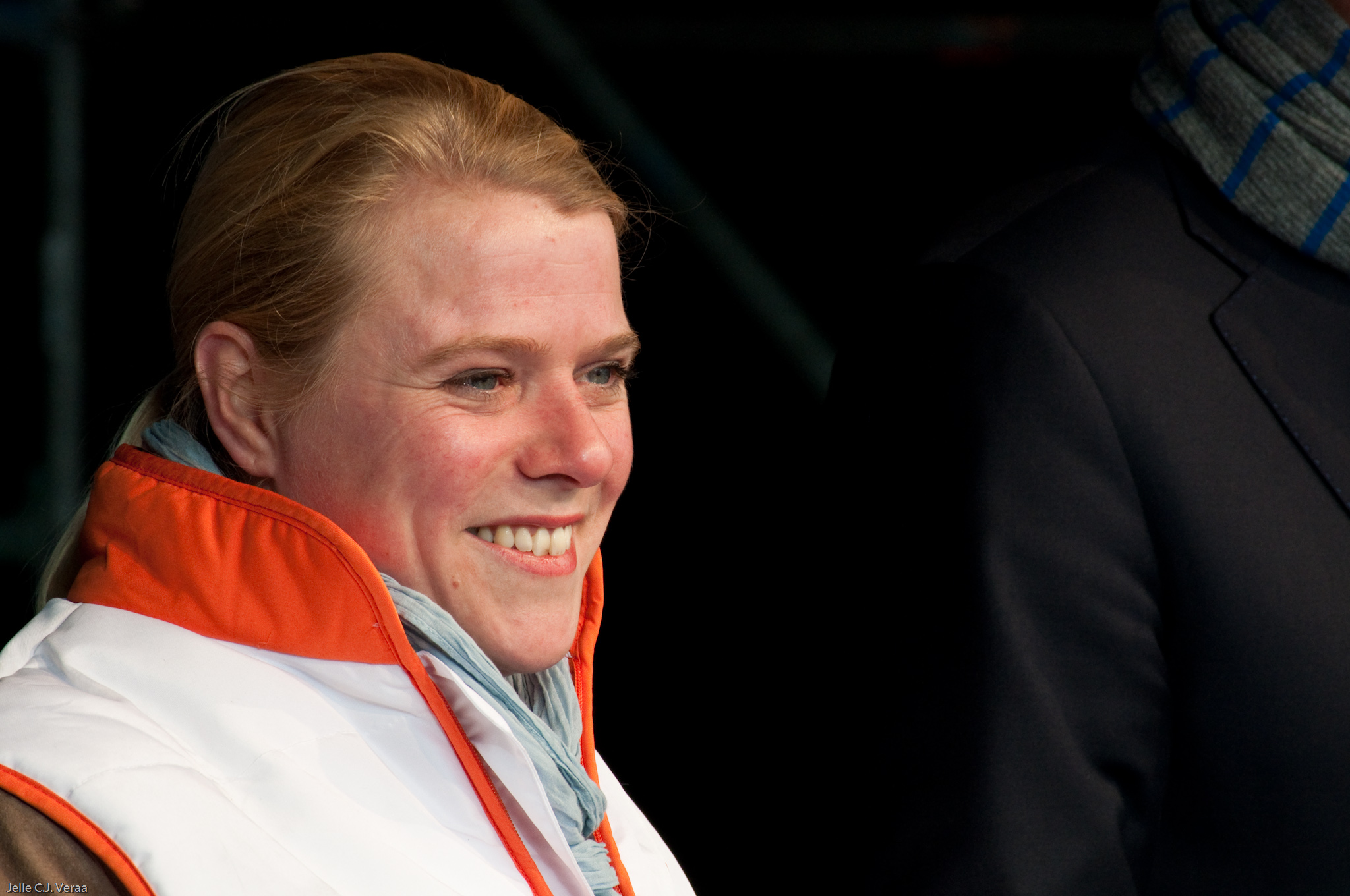 Anne-Wil Lucas-Smeerdijk at the student demonstration against higher education budget cuts - Malieveld, the Hague, the Netherlands, 01-21-2011